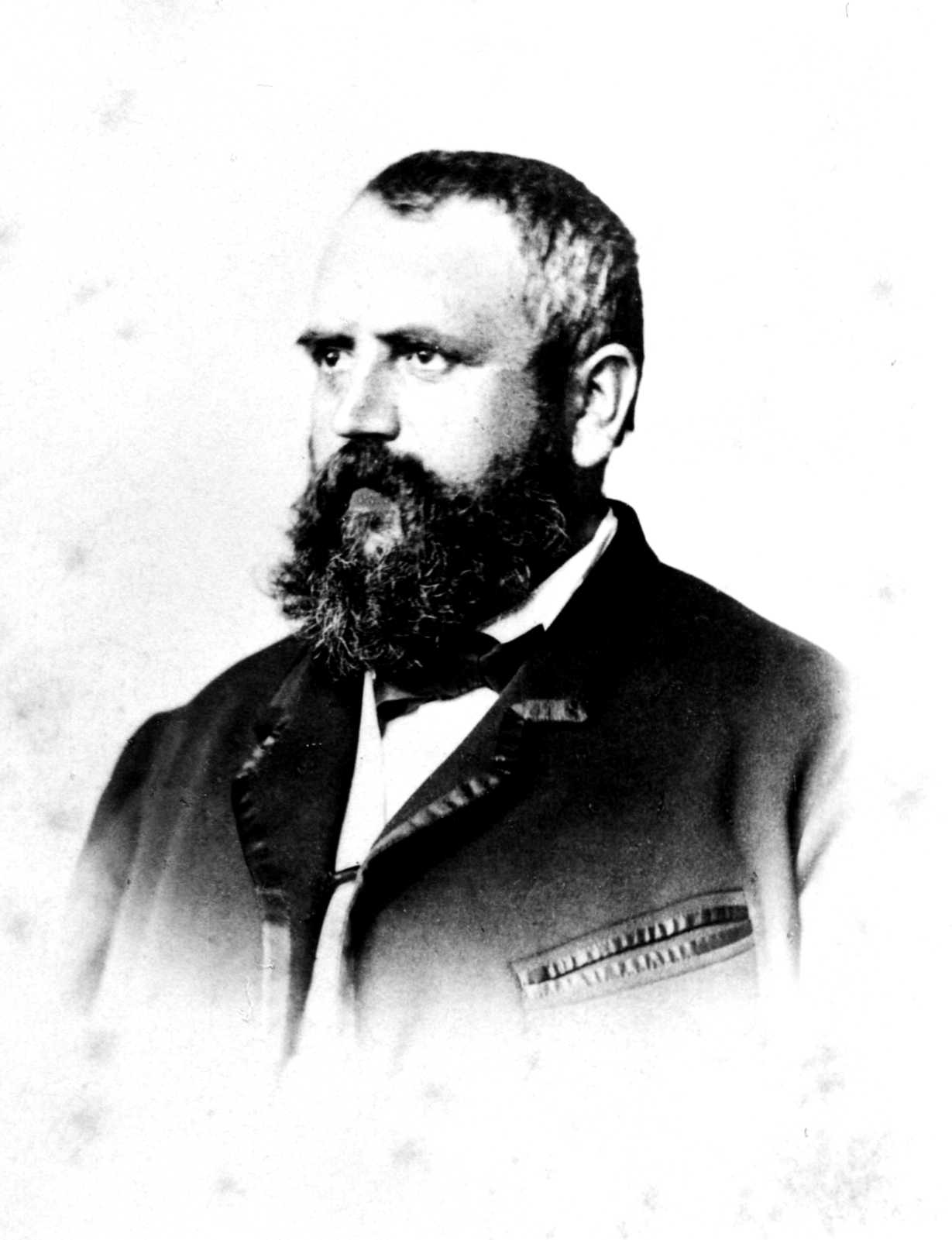 Friedrich Engelhorn